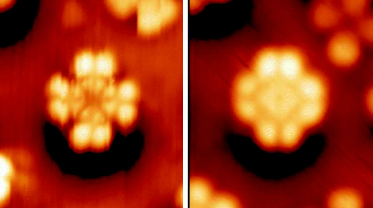 Top panels: experimental STM images of one molecule adsorbed at an off-center pore site obtained by different bias potentials. Left Vb = −2 eV, middle Vb = −1 eV, right Vb = +1 eV. Bottom panels: simulated STM images of the offA1 optimized structure, also obtained with the same three bias potentials.